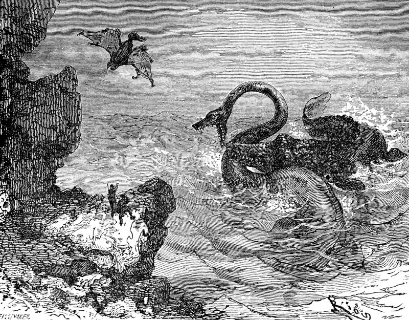 An ilustration from the novel "Journey to the Center of the Earth" by Jules Verne painted by Édouard Riou.